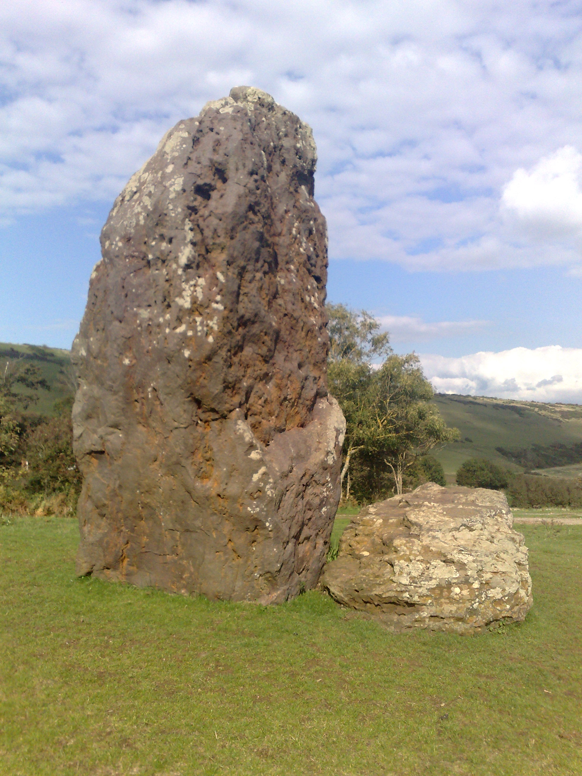 The Longstone, a Megalithic monument near the hamlet of Mottistone, Isle of Wight.